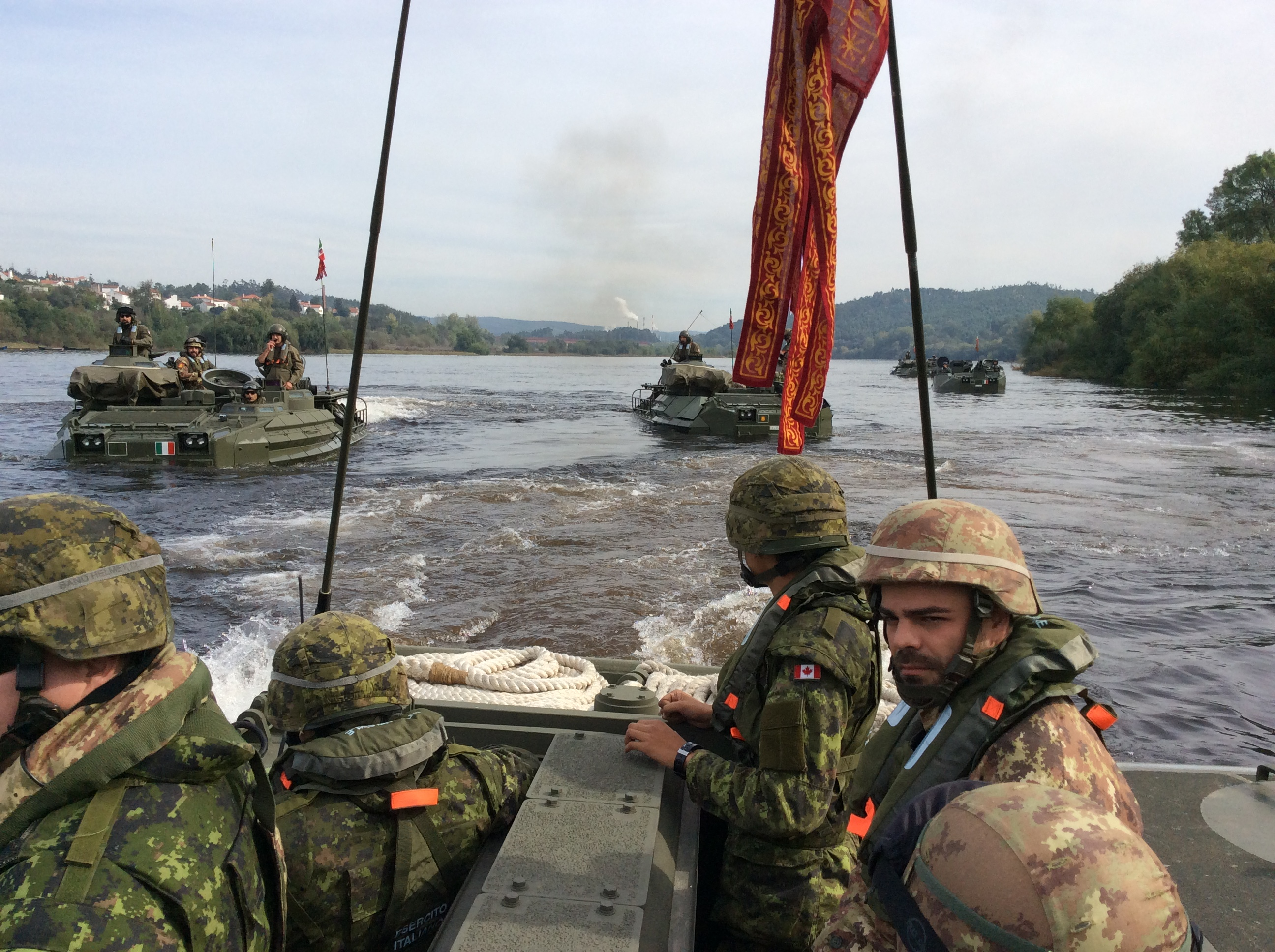 Members of the Italian Army Amphibious Forces (Reggimento Lagunari) and Canadian Army personnel conduct a river crossing in Portugal on 23, 2015 during Trident Juncture 15. (Photo: Italian Army)